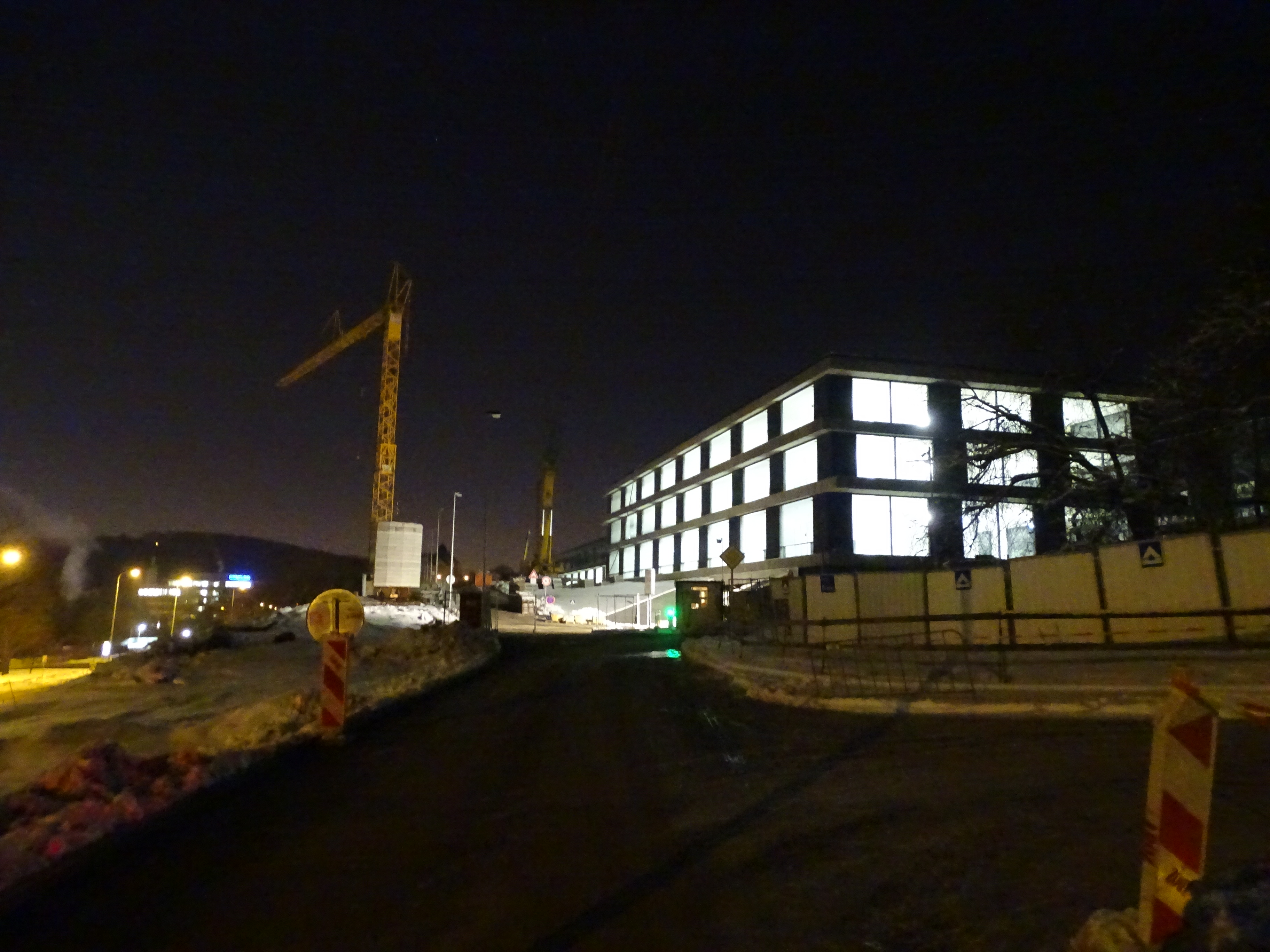 Prague-Radlice, Czechia. Výmolova street, a construction site.